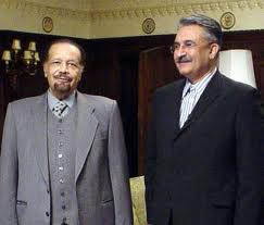 left: Sheikh Zaki Yamani, former Saudi Arabian Oil Minister, in his house in London. right: Ali Akbar Abdolrashidi, Iranian journalist